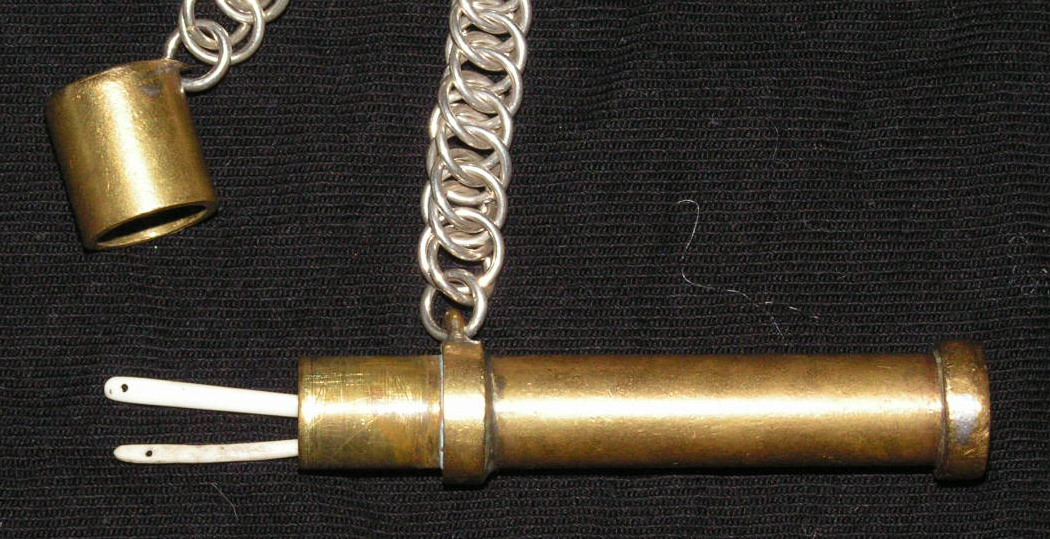 Replica of a viking age needle Case